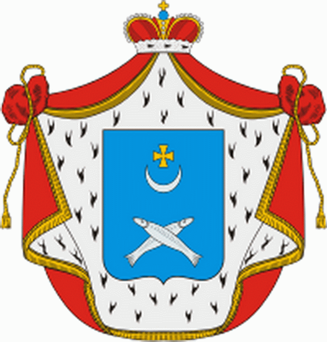 Coat of Arms of Vadbolskyfamily